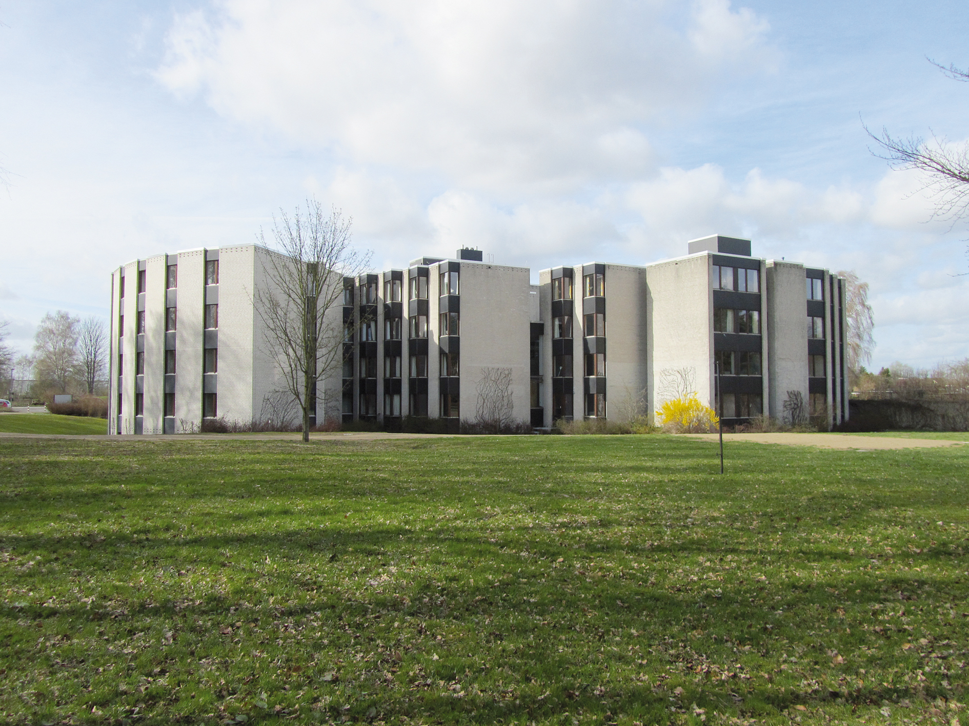 Jugendakademie Bad Segeberg Cultural heritage monument Designed 1963 by Helmut Striffler, erected 1970, expanded 1996. Former name: Evangelische Akademie Nordelbien